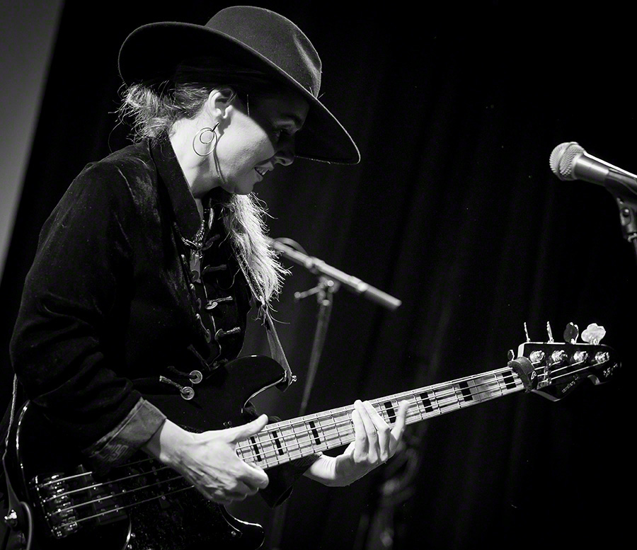 Ida Nielsen at the stage of Nasjonal Jazzscene Victoria. The concert was part of the Oslo Jazz Festival in Norway and took place on 20. August 2016. Lineup:Ida Nielsen (bass)Sofia Hejslet (keyboard)Mika Vandborg (guitar)Yassin Daulne (Disc jockey)Patrick Dorcean (drums)André Martin Hadland (vocal)